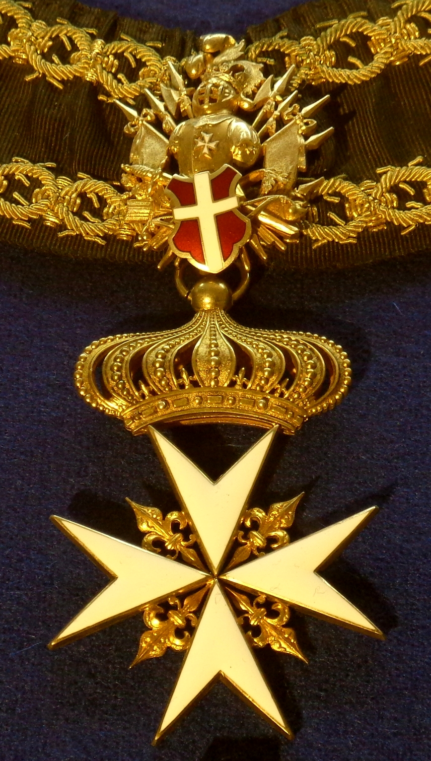 Sovereign Military Order of Malta. Badge of Bailiff Knights Grand Cross. The exhibition of the Tallinn Museum of Orders of Knighthood, Estonia.